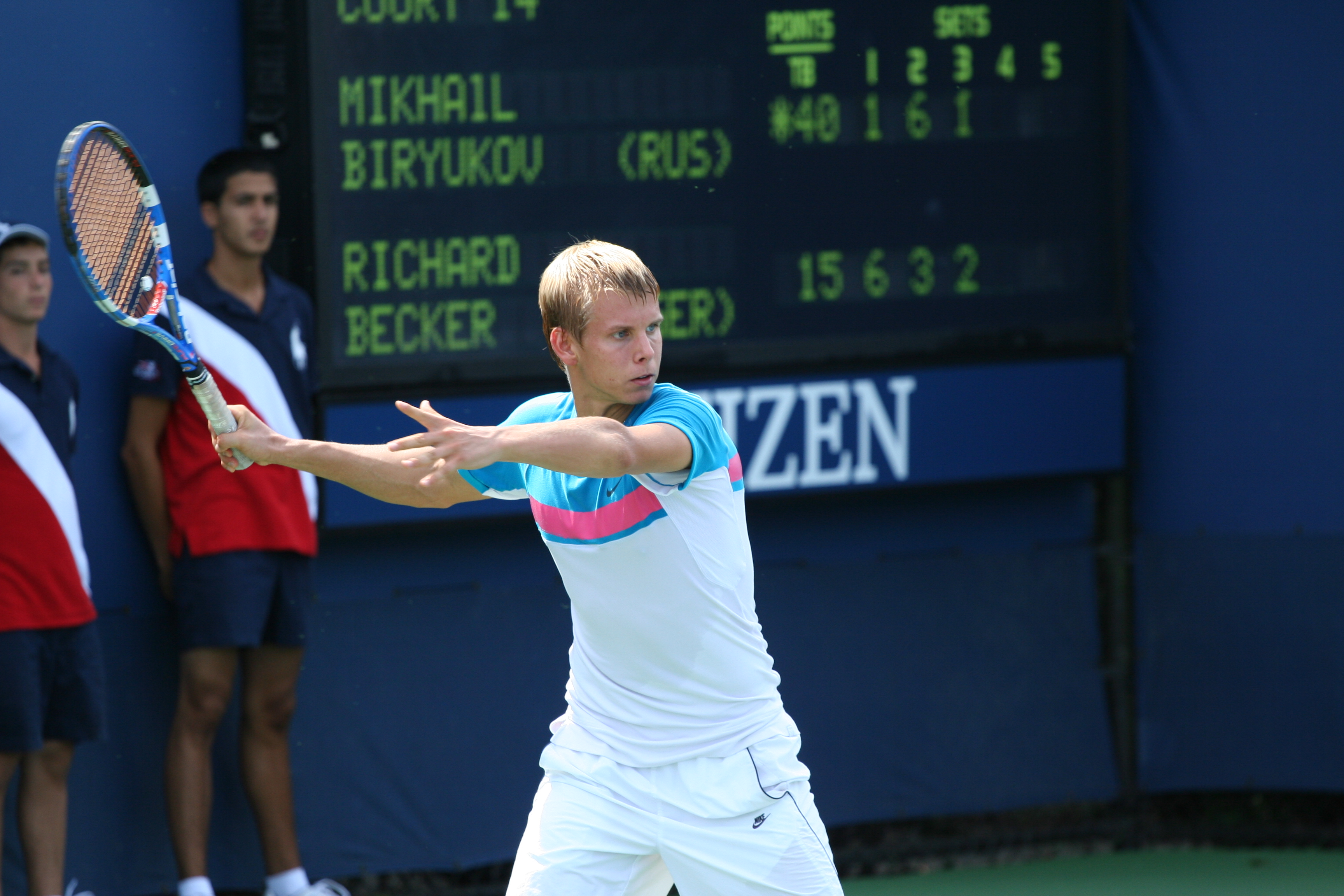 Mikhail Biryukov U.S. Open Juniors Monday, Sept. 7, 2009